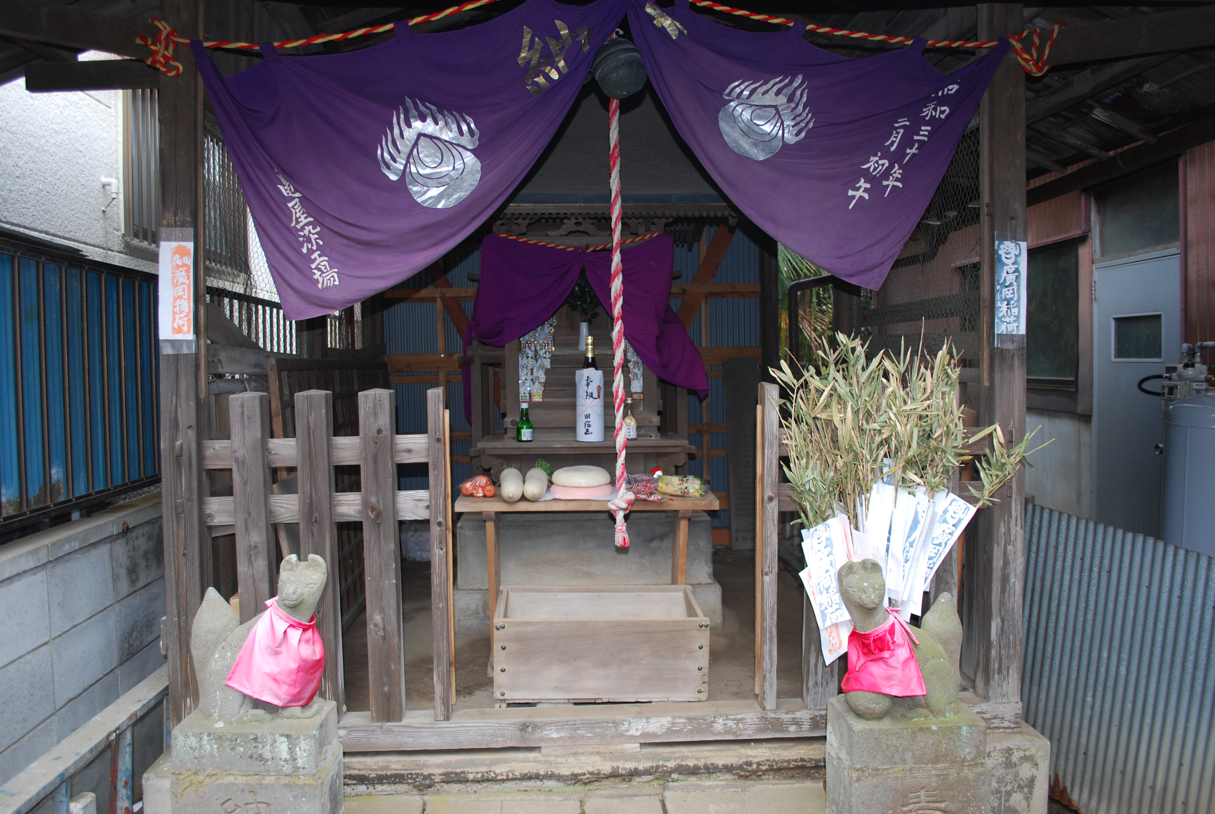 Hatsuuma-festival,Hirooka-innari-shrine,Tajyuku,Katori-city,Japan